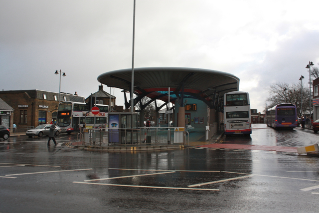 Pudsey Bus Station, Data from Geograph: Description: The bus station in Market Place has been transformed since the earlier photo by Betty Longbottom in 2007. (Photo 561573). Traffic now circulates in an anti-clockwise direction. Private cars are also allowed, requiring access to... more ICBM: 53.795896185178, -1.6633992045042 Location: (about 1 km from) near to Pudsey, Leeds, Great Britain.